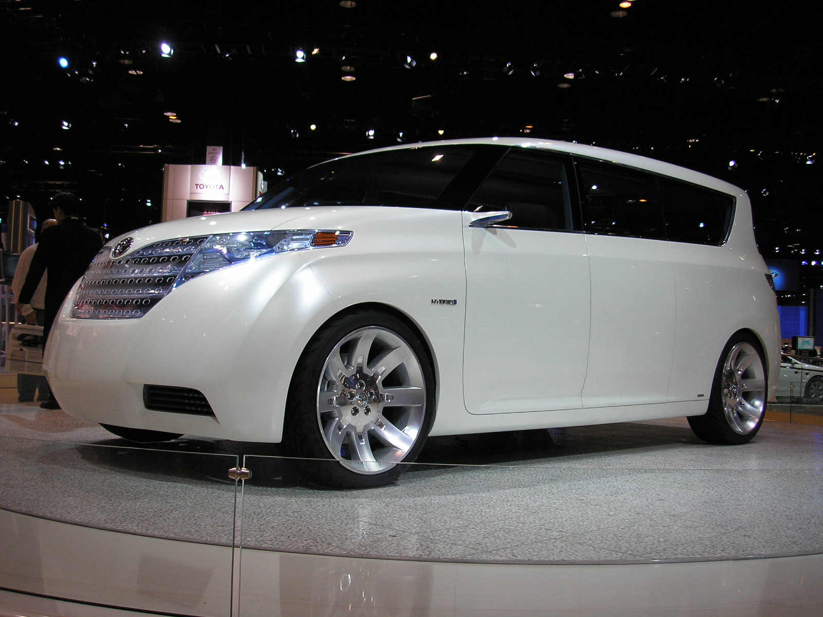 Toyota shown at the 2006 Chicago Auto Show Photo taken by Slo-mo